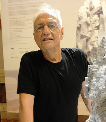 Frank O. Gehry - Parc des Ateliers on Flickr